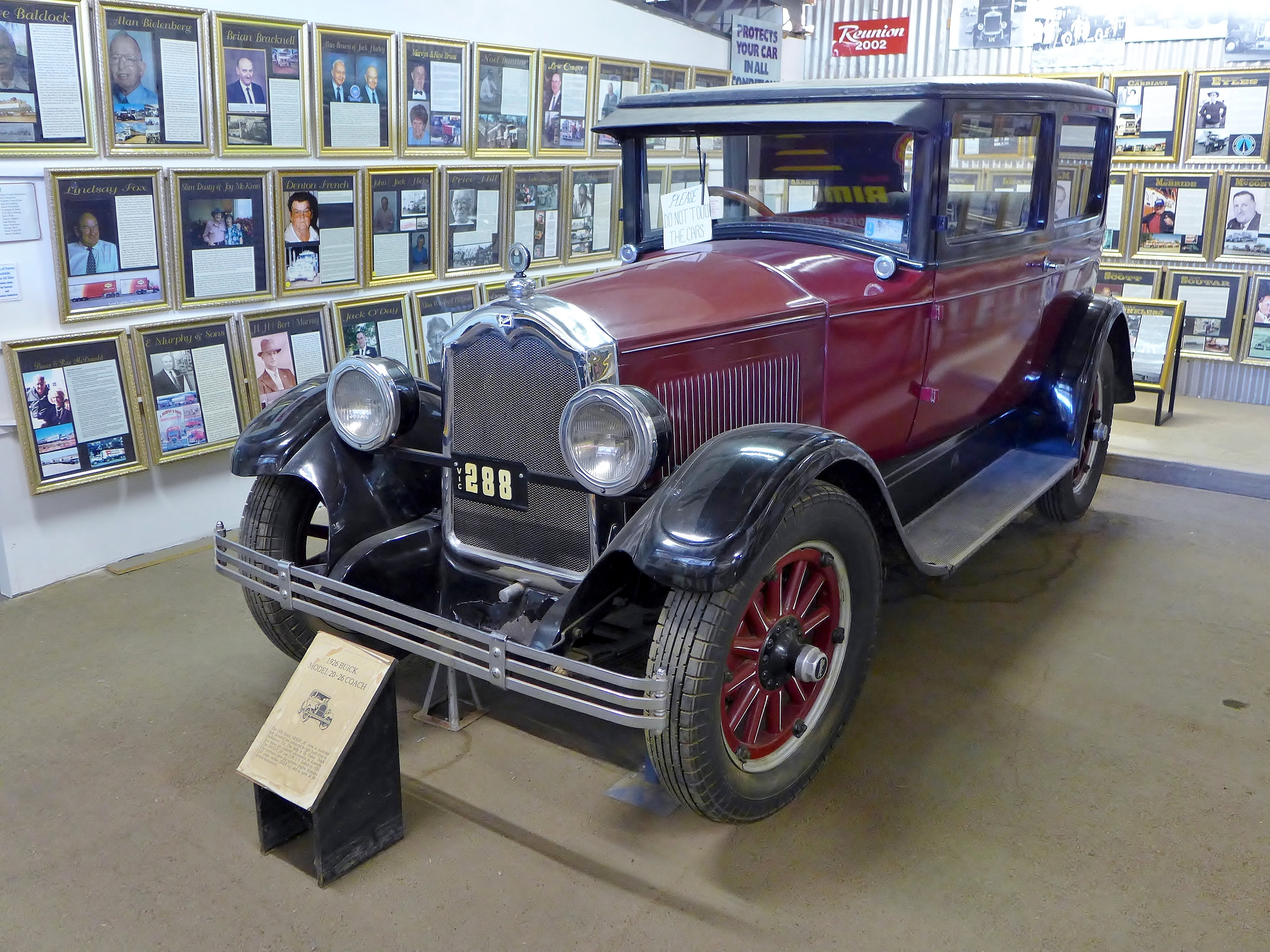 A 1926 Buick Model 20-26 Coach, on display at the National Road Transport Hall of Fame, Alice Springs, NT, Australia.